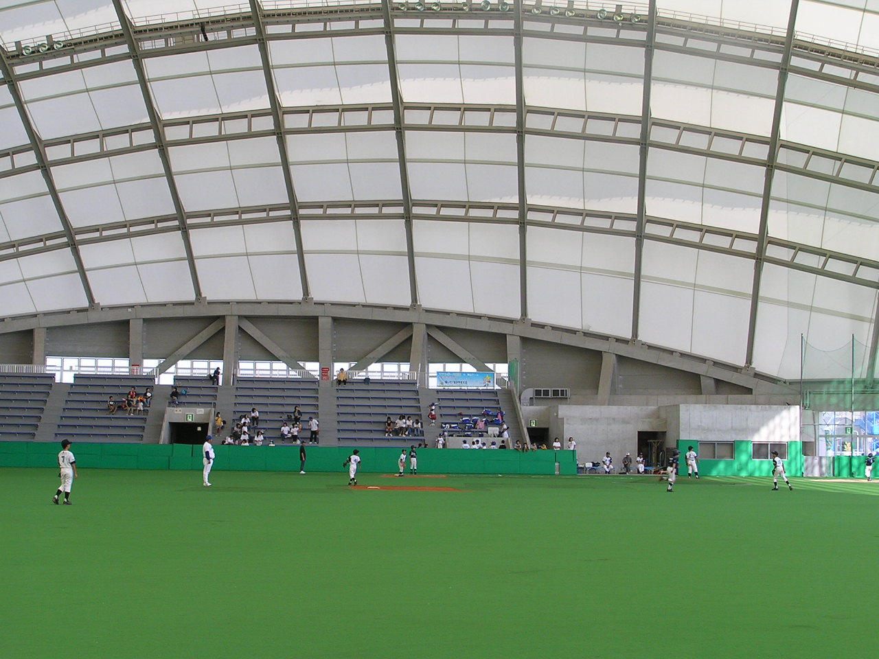 the inside of okayama dome